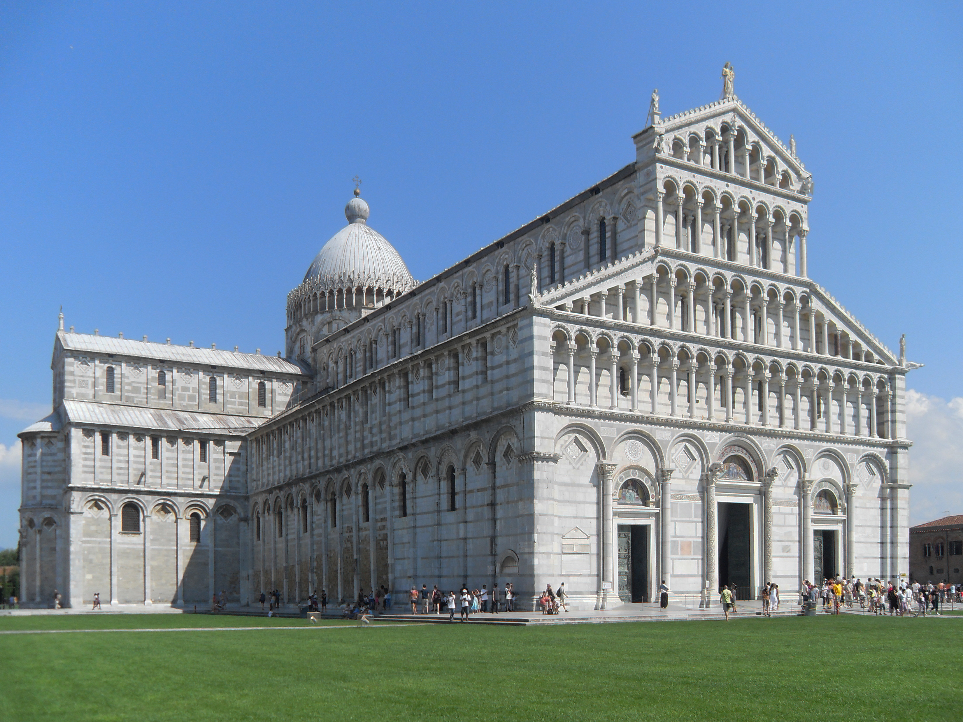 The Cathedral